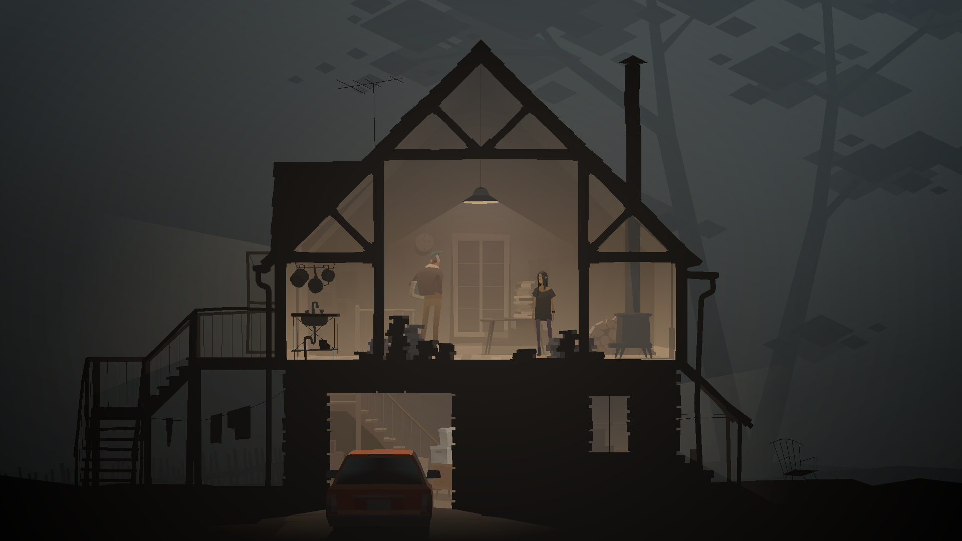 Screenshot of the game Kentucky Route Zero.